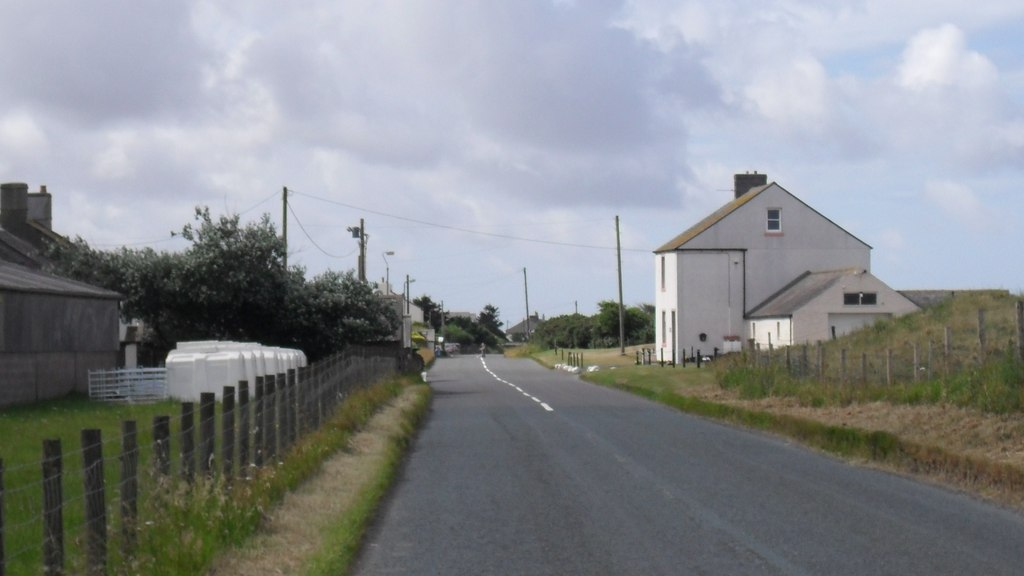 Beach-side house at Beckfoot in Cumbria